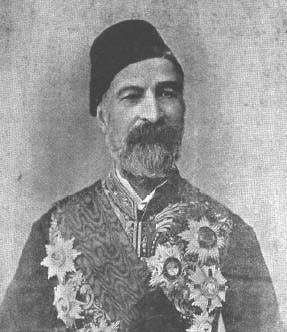 Riaz Pasha (1835 or 1836–1911) - Egyptian statesman.